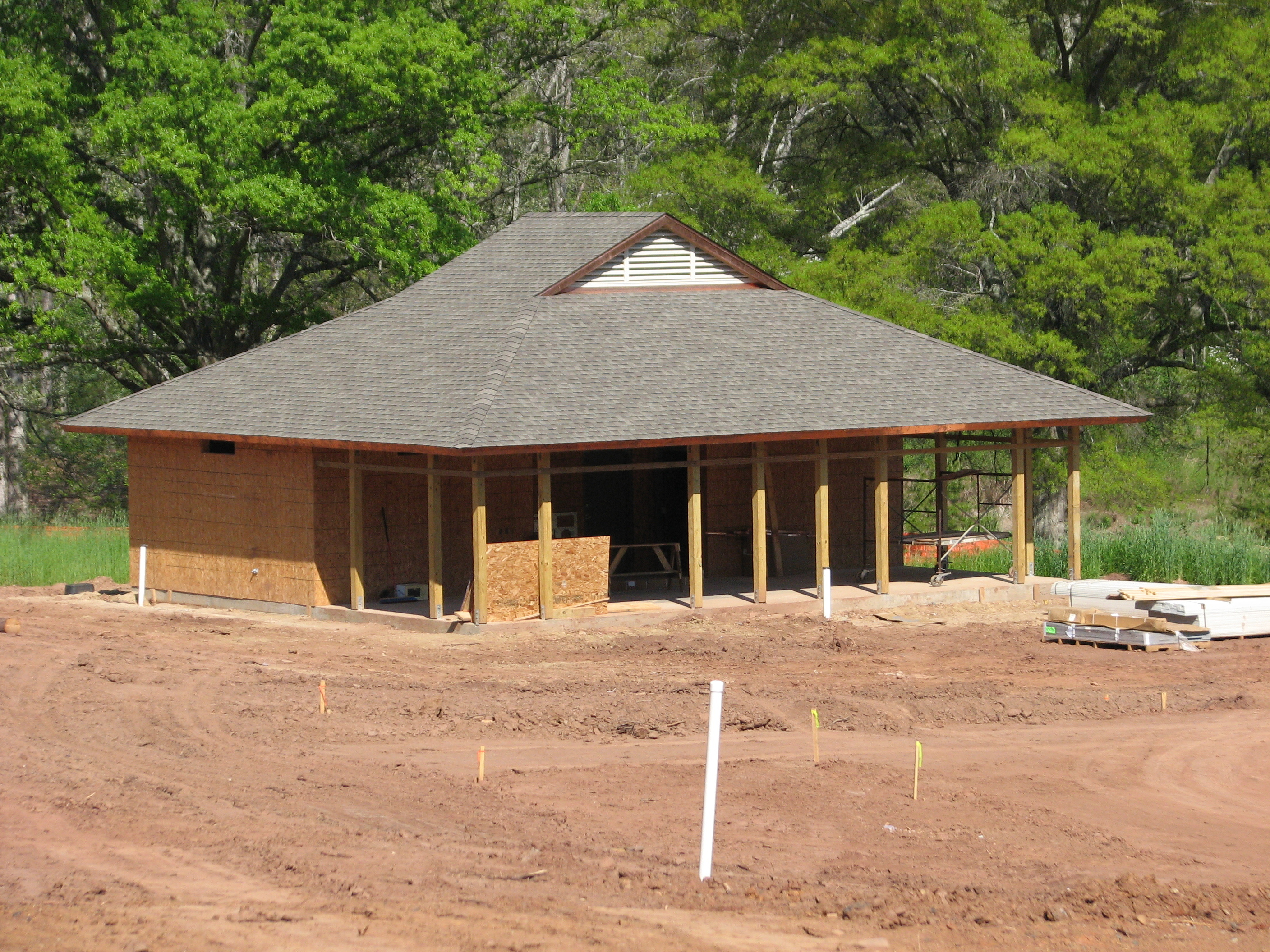 Reconstruction Bath House Mayo River NC SP 9654